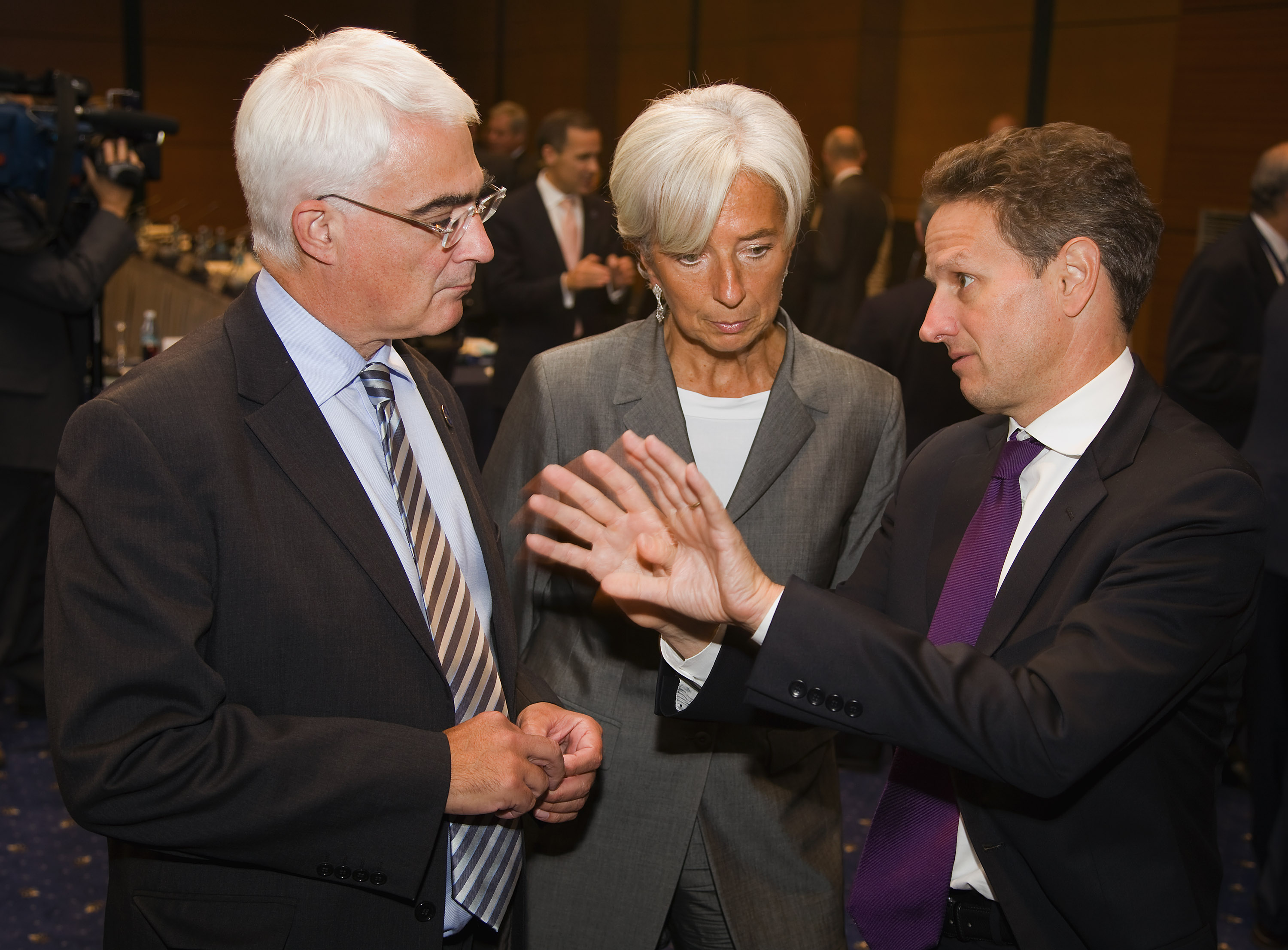 British Chancellor of the Exchequer Alistair Darling (L), French Finance Minister Christine Lagarde (C) and U.S. Treasury Secretary Tim Geithner (R) talk after their G-7 meeting at the Istanbul Congress Center